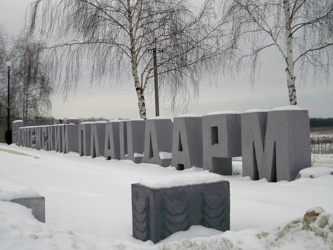 с. Новые Петровцы